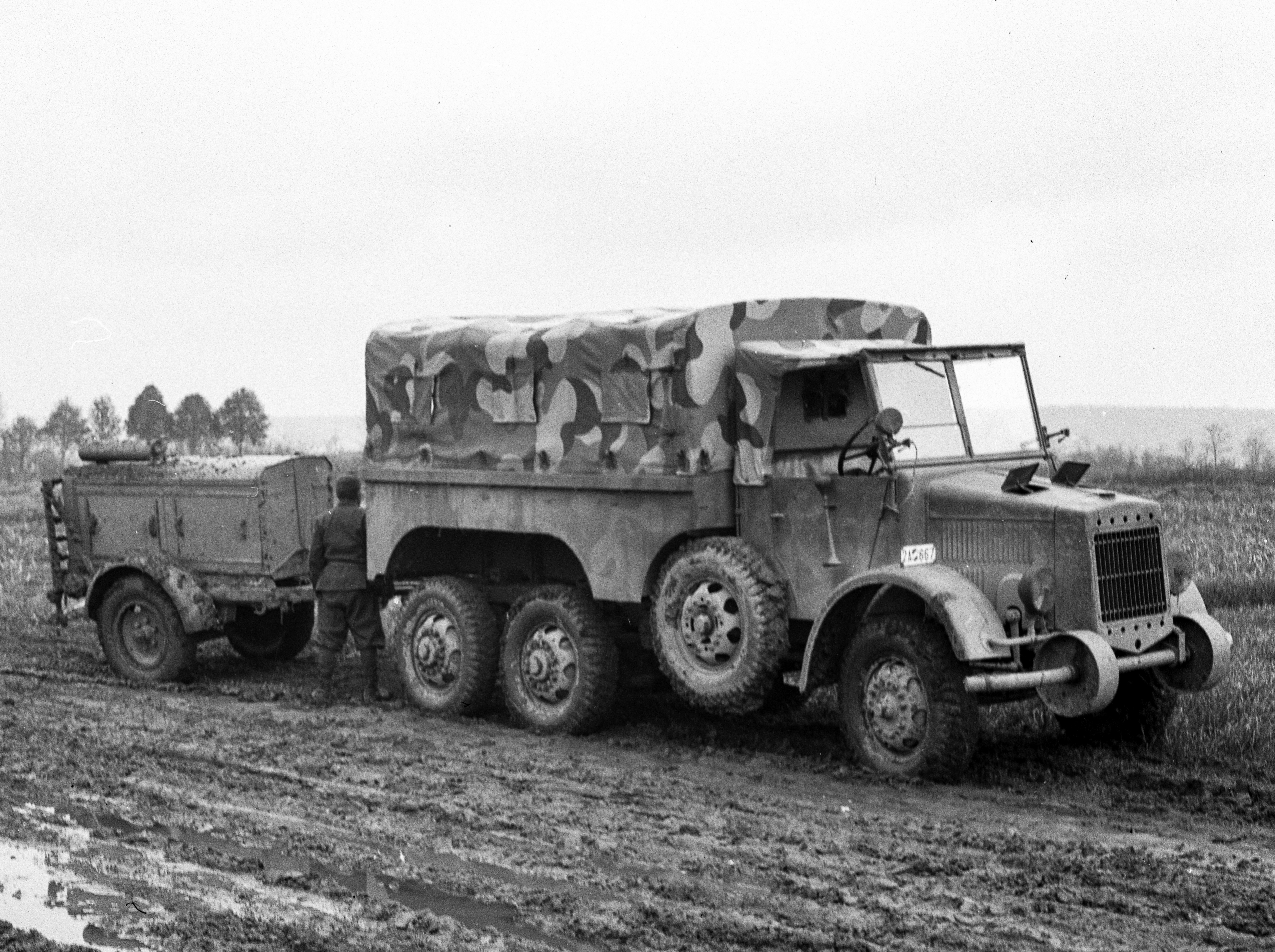 Tags: commercial vehicle, trailer, Hungarian brand, Rába-brand, portable generator, camouflage pattern, number plate, military number plate